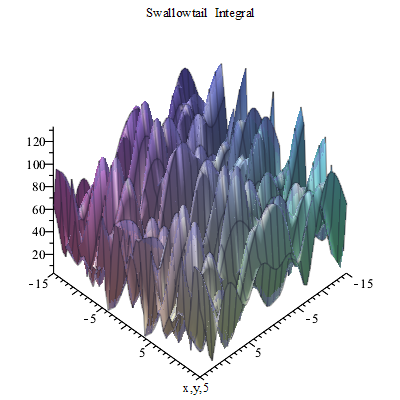 Swallowtail Integral Maple 3D plot